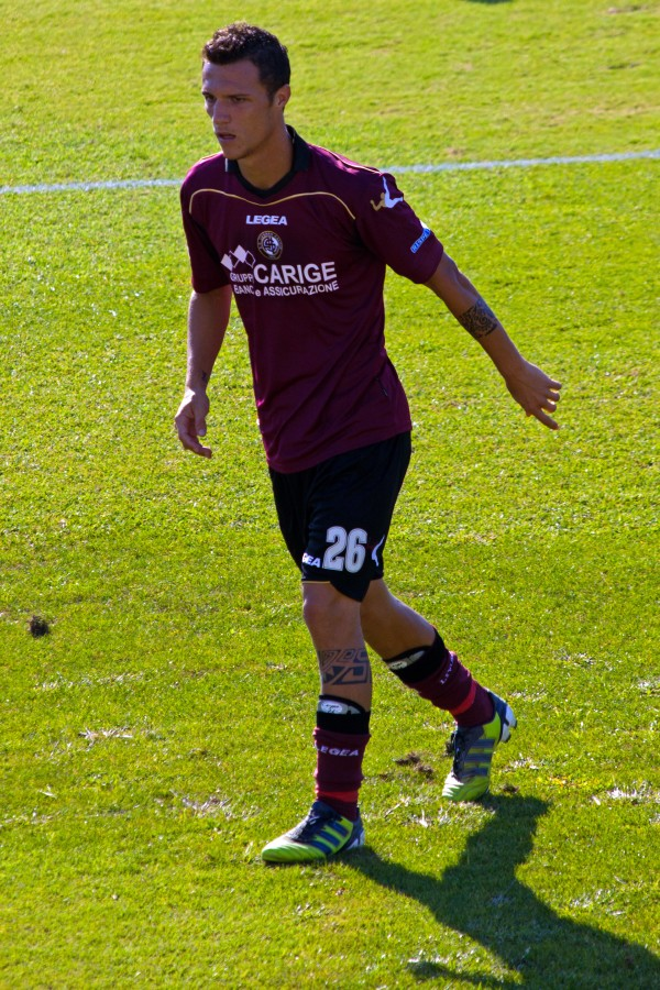 Andrea Siligardi Livorno's player 2012/2013